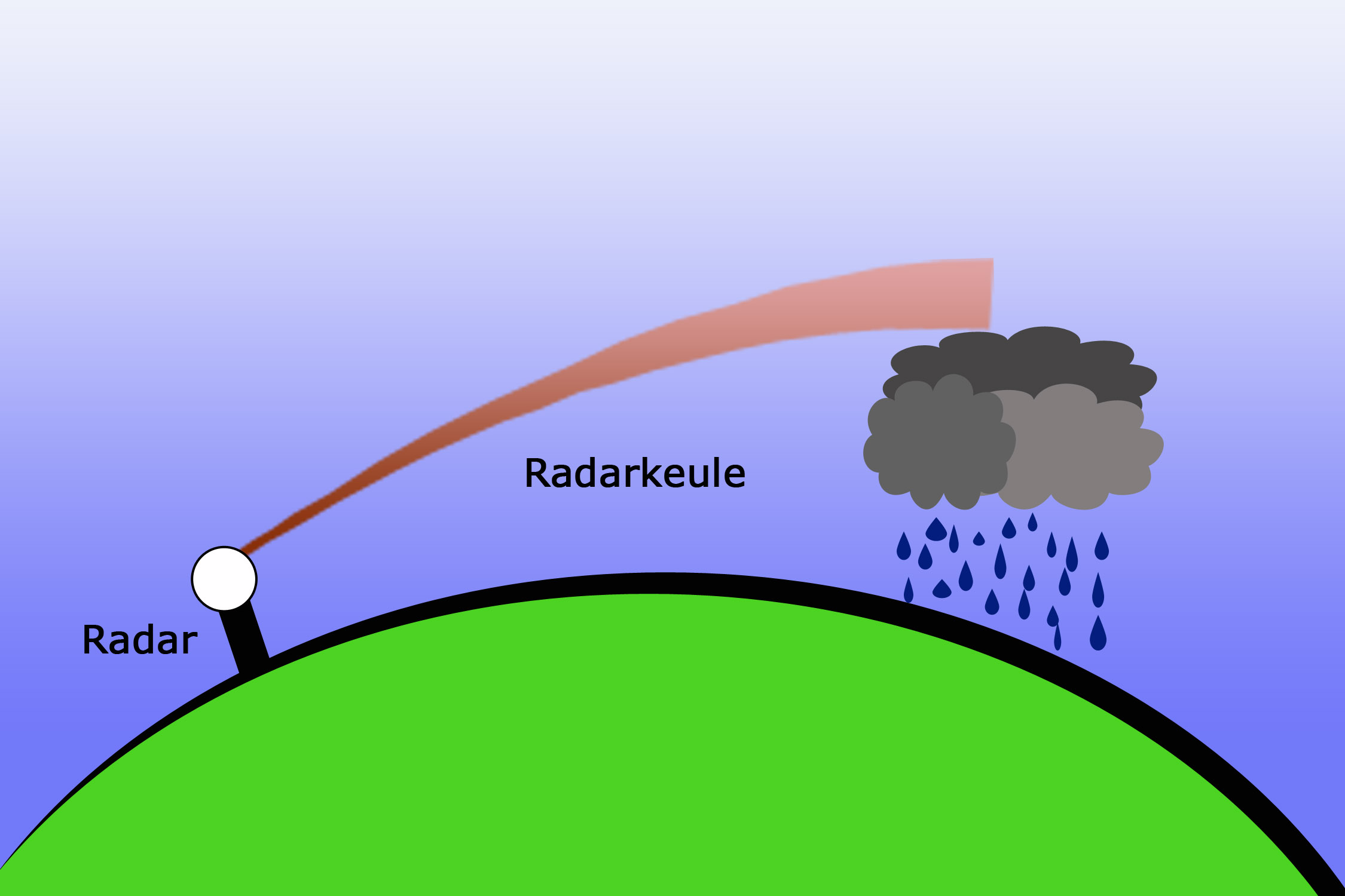 Refraction effect